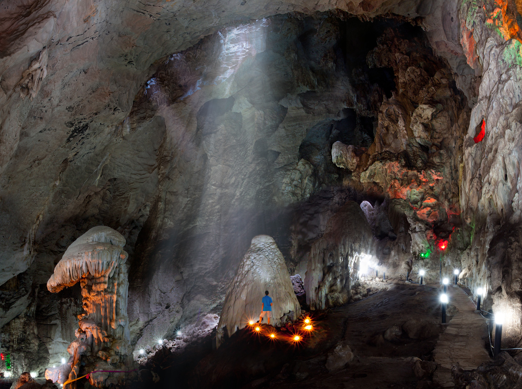 Erawan Cave (ถ้ําเอราวัณ), Na Wang District, Nong Bua Lamphu Province.